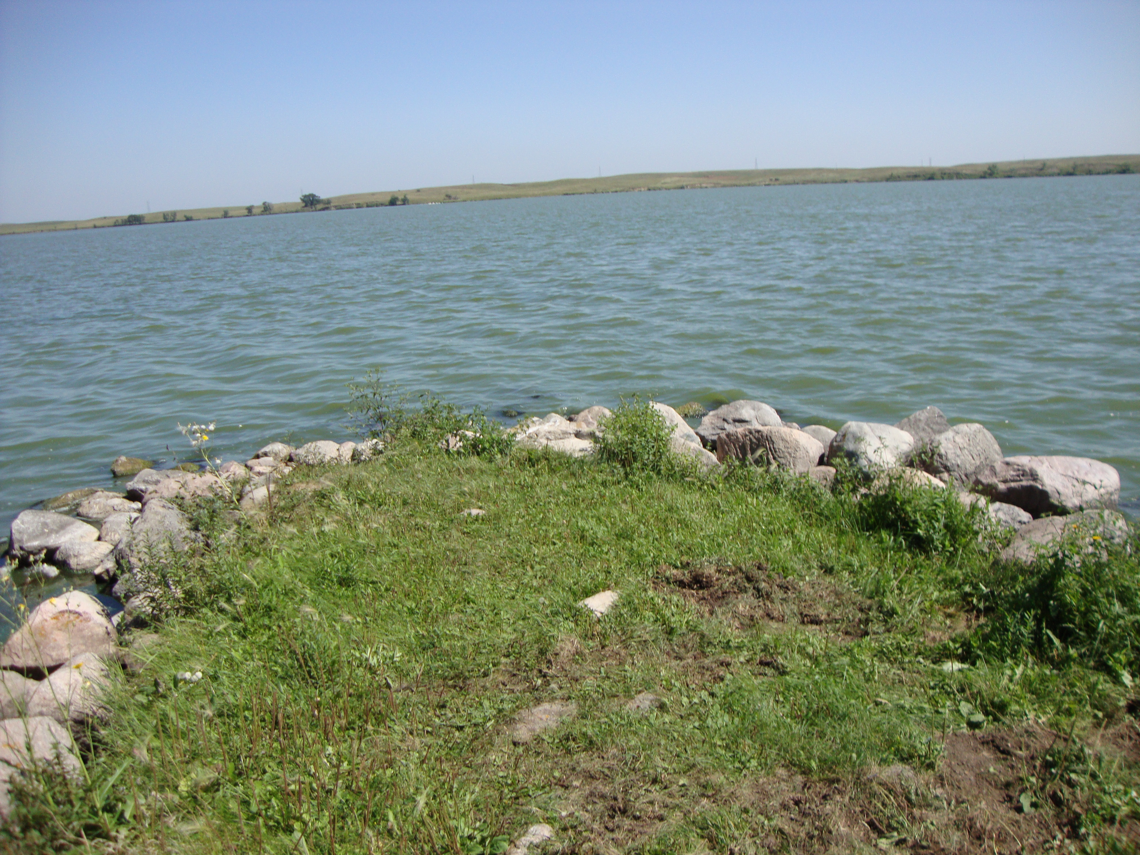 Beaver Lake State Park, near Wishek, North Dakota